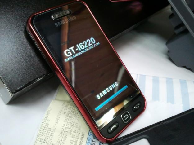 GT-I6220